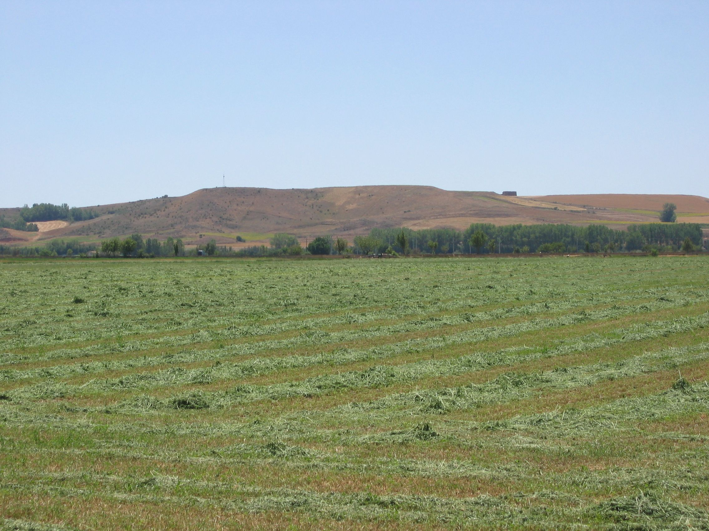 Oppidum of Dessobriga near Osorno la Mayor (Palencia, Castile and León).